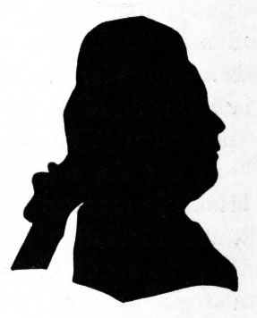 Kristofer (Kristian) Knöppel. Picture from Volume 1 (of 8) of Nils Personne’s history of Swedish theatre.